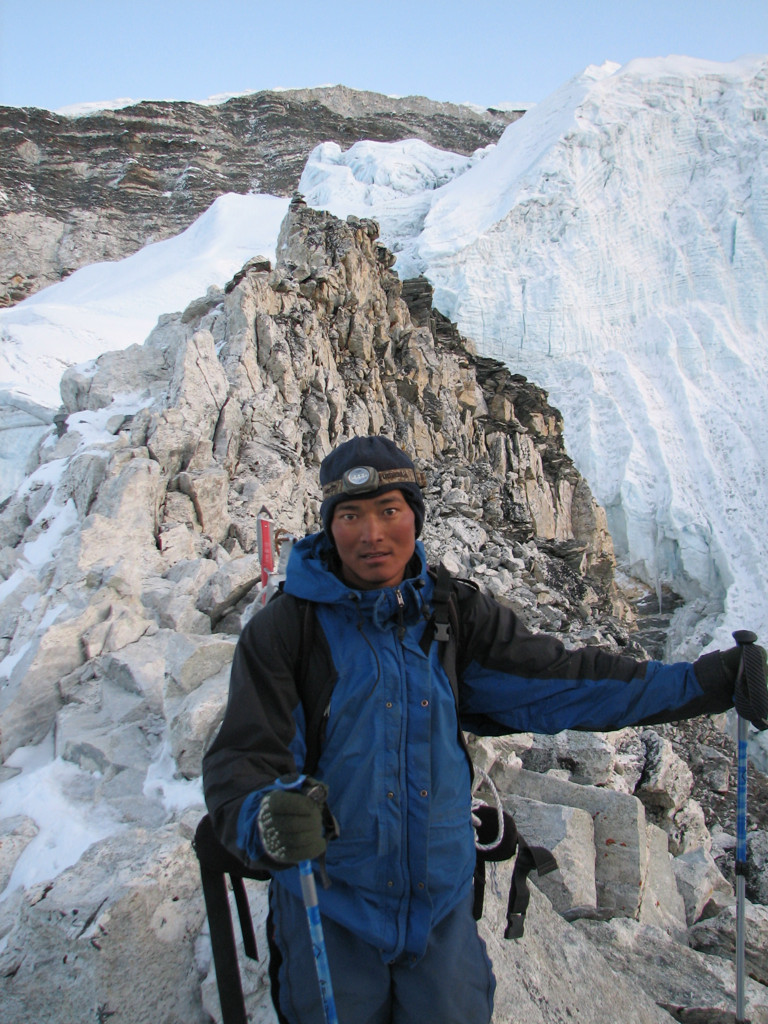 Sherpa guide